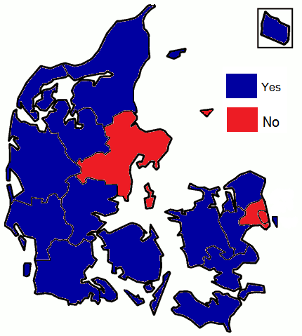 Danish Amsterdam Treaty referendum, 1998